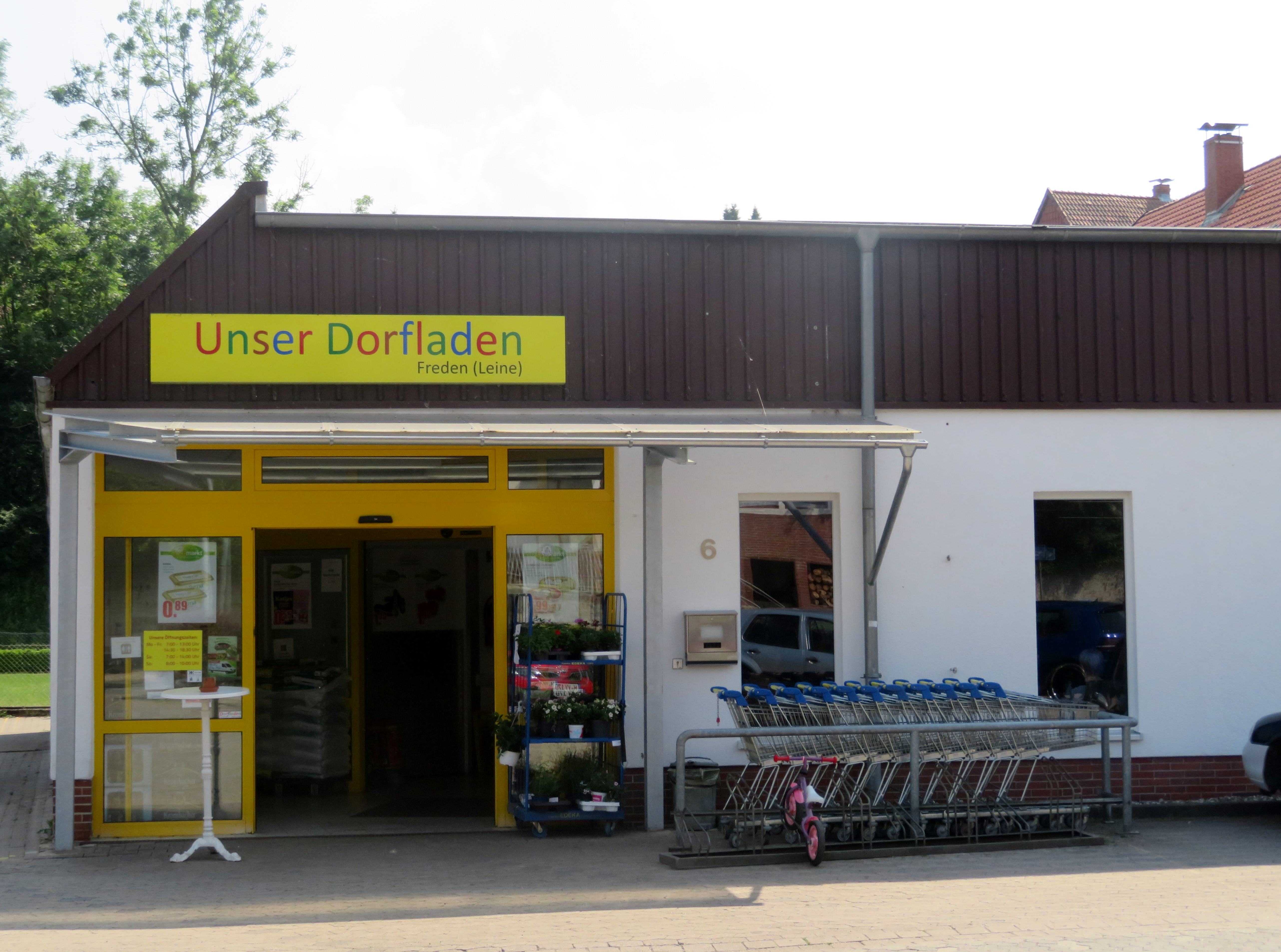 Unser Dorfladen Project, Freden (Leine), Lower Saxony, Germany